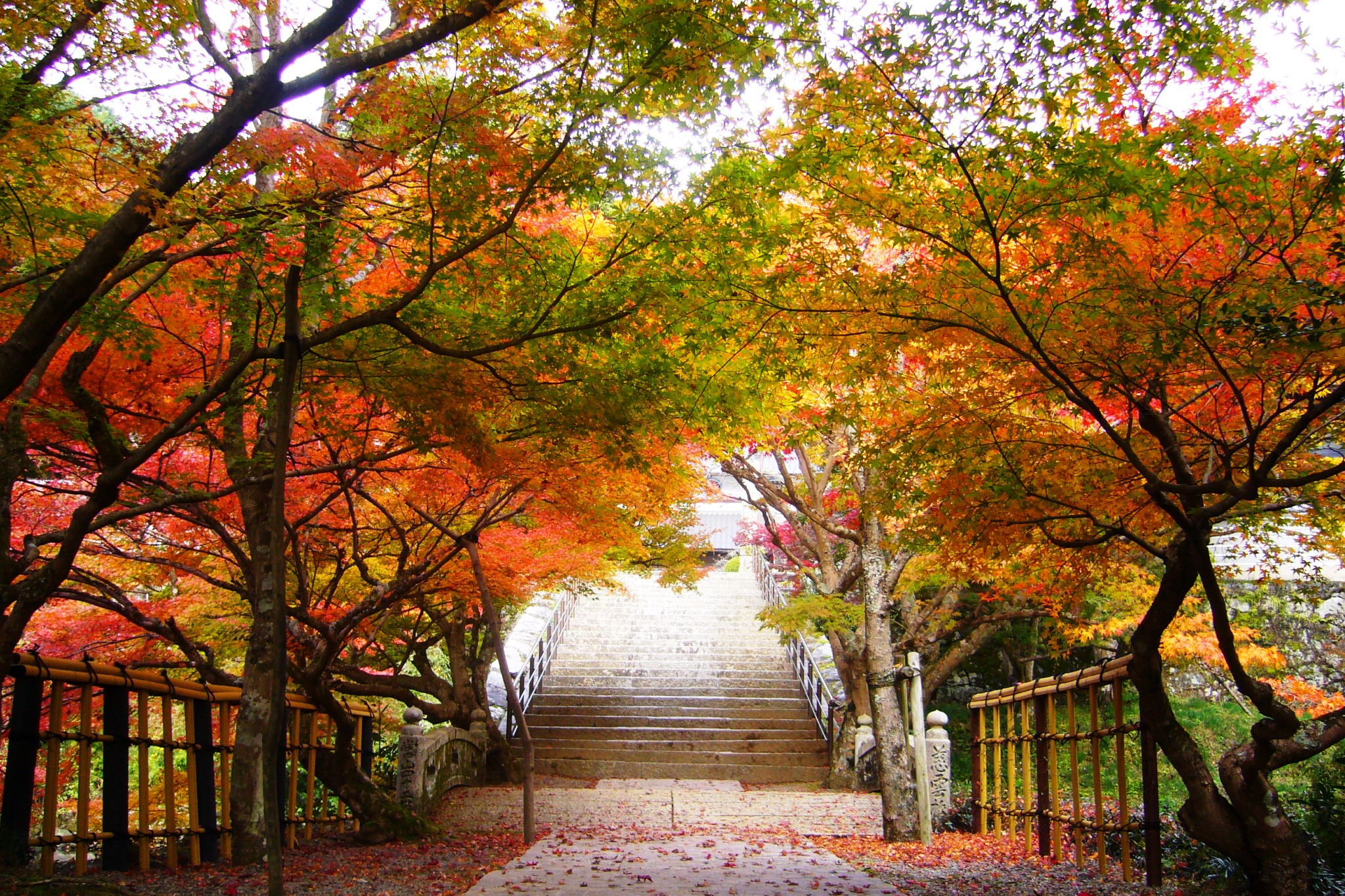 Entsu-ji, Precincts -1 (November 2012)